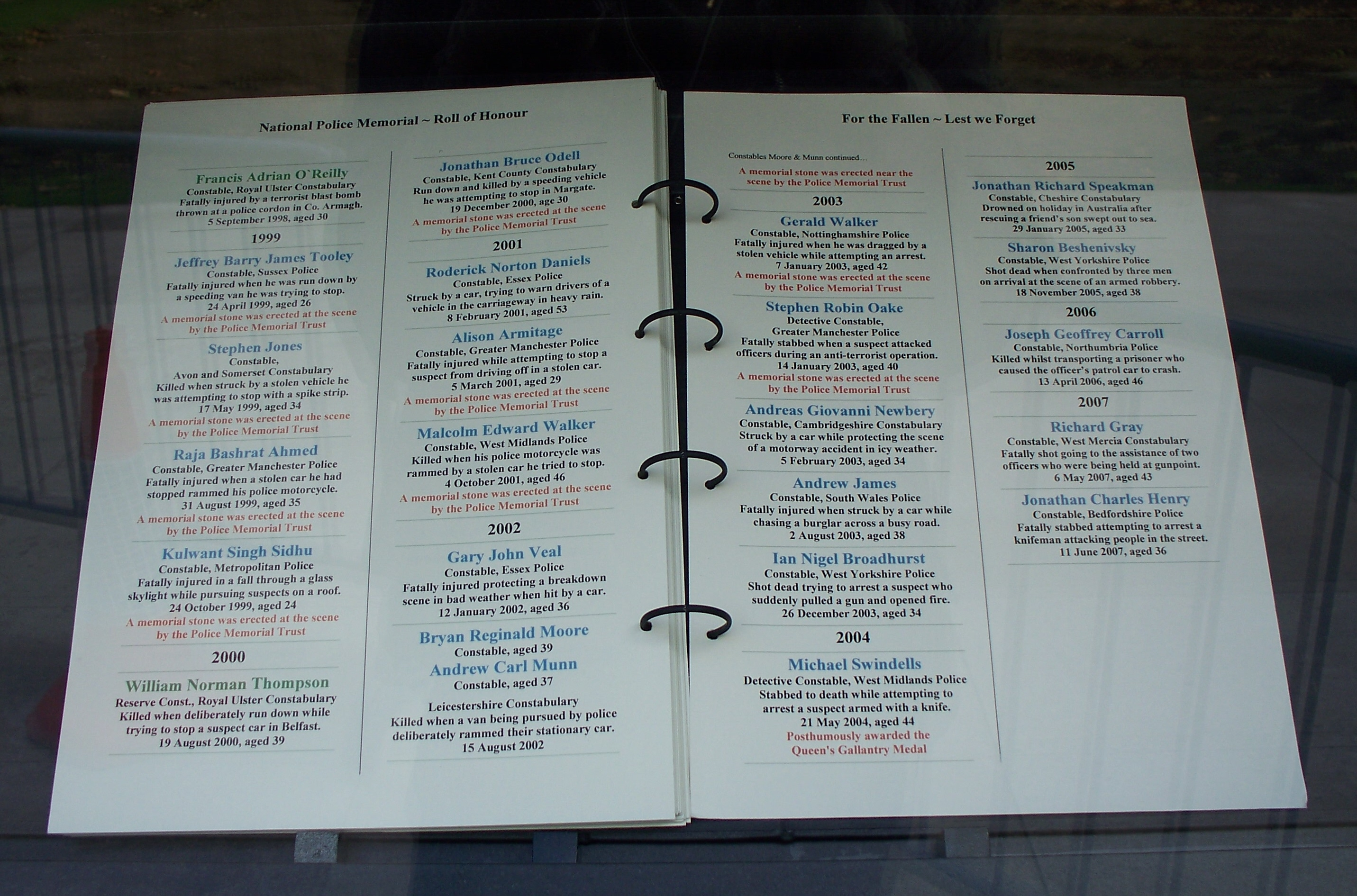 Memorial book from the National Police Memorial, London